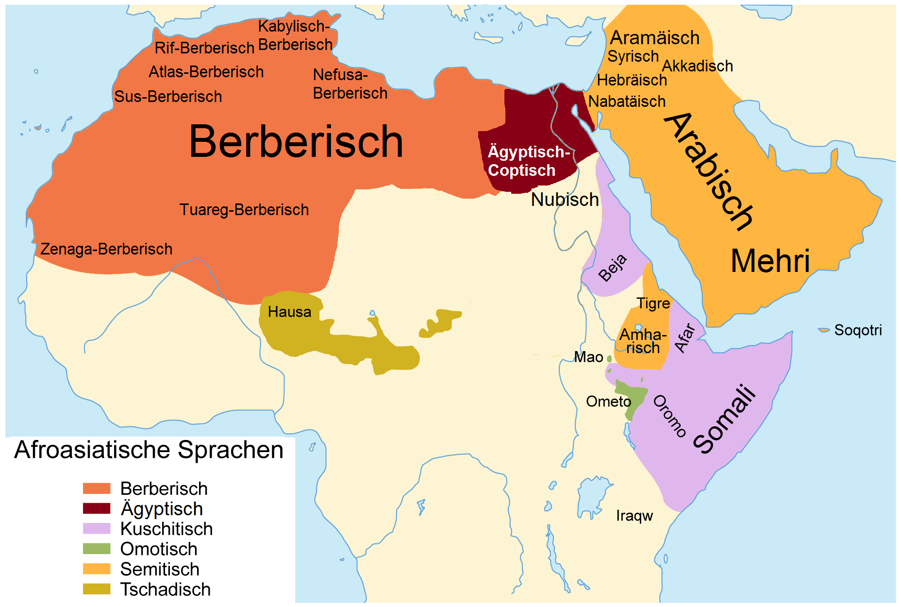 Map of Afro-Asiatic languages. Karte der Afroasiatischen Sprachen.